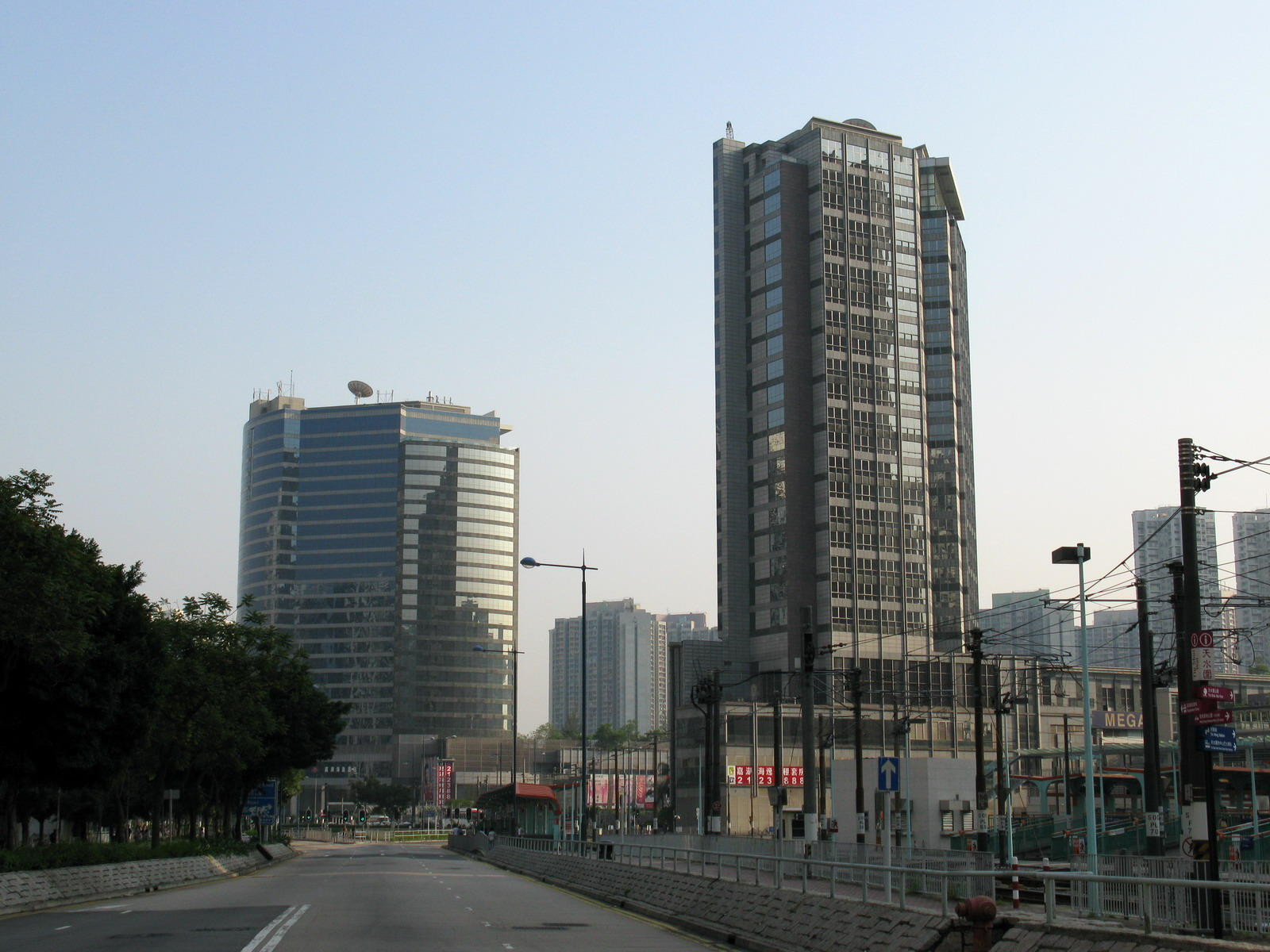 Harbour Plaza Resort City / Kingswood Ginza